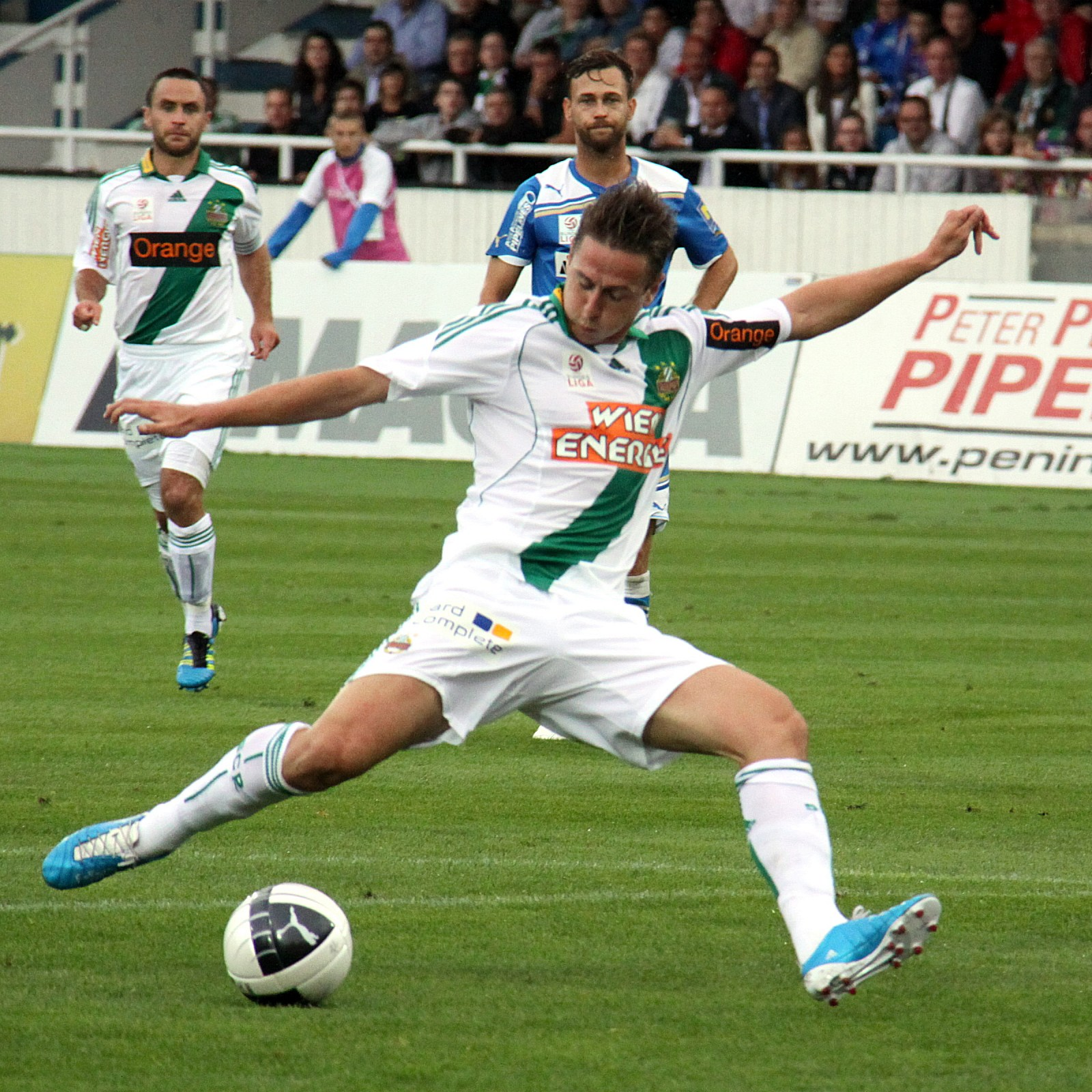 SC Wiener Neustadt (blue shirts) vs SK Rapid Wien (white shirts) 0:2 (0:0) – The foto shows in front Rene Gartler, in the background Steffen Hofmann (left) and Michael Madl.